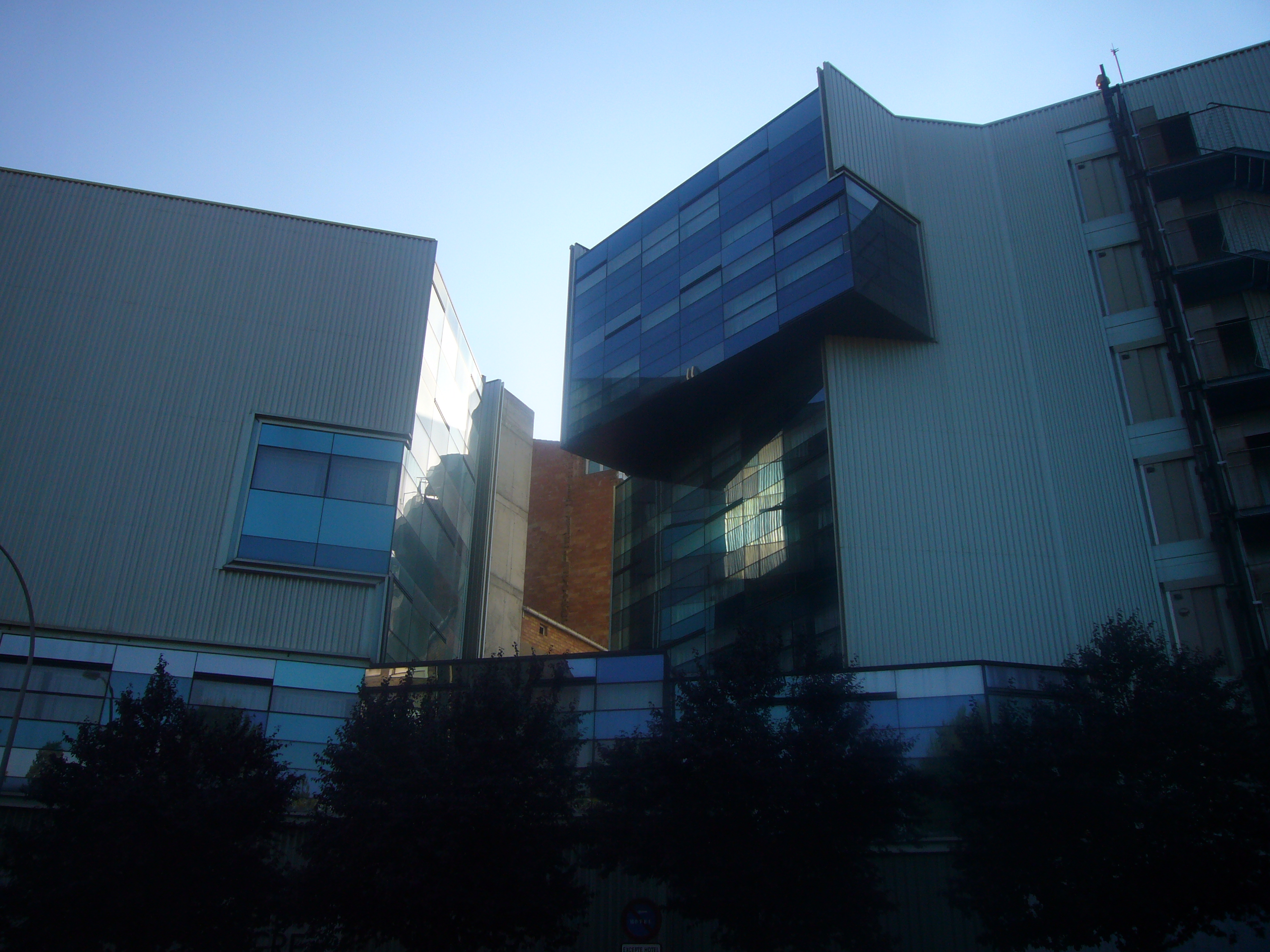 Hotel Ciutat Igualada, built in 2001. Architects Manel Bailo i Esteve (Igualada, 1965) & Rosa Rull i Bertran (Tarragona, 1964)